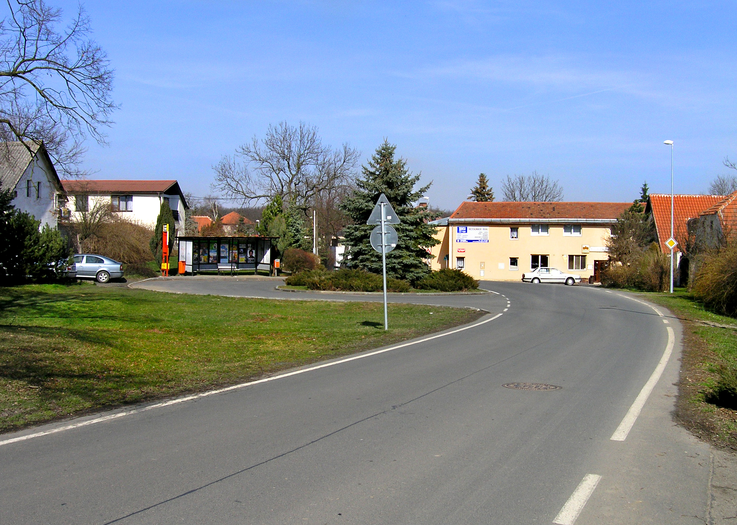 Local part Hájek near Uhříněves, Prague